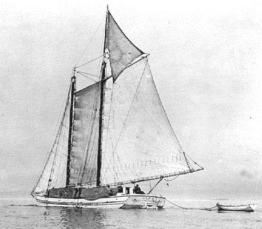 The scow schooner Alma sailing on San Francisco Bay.